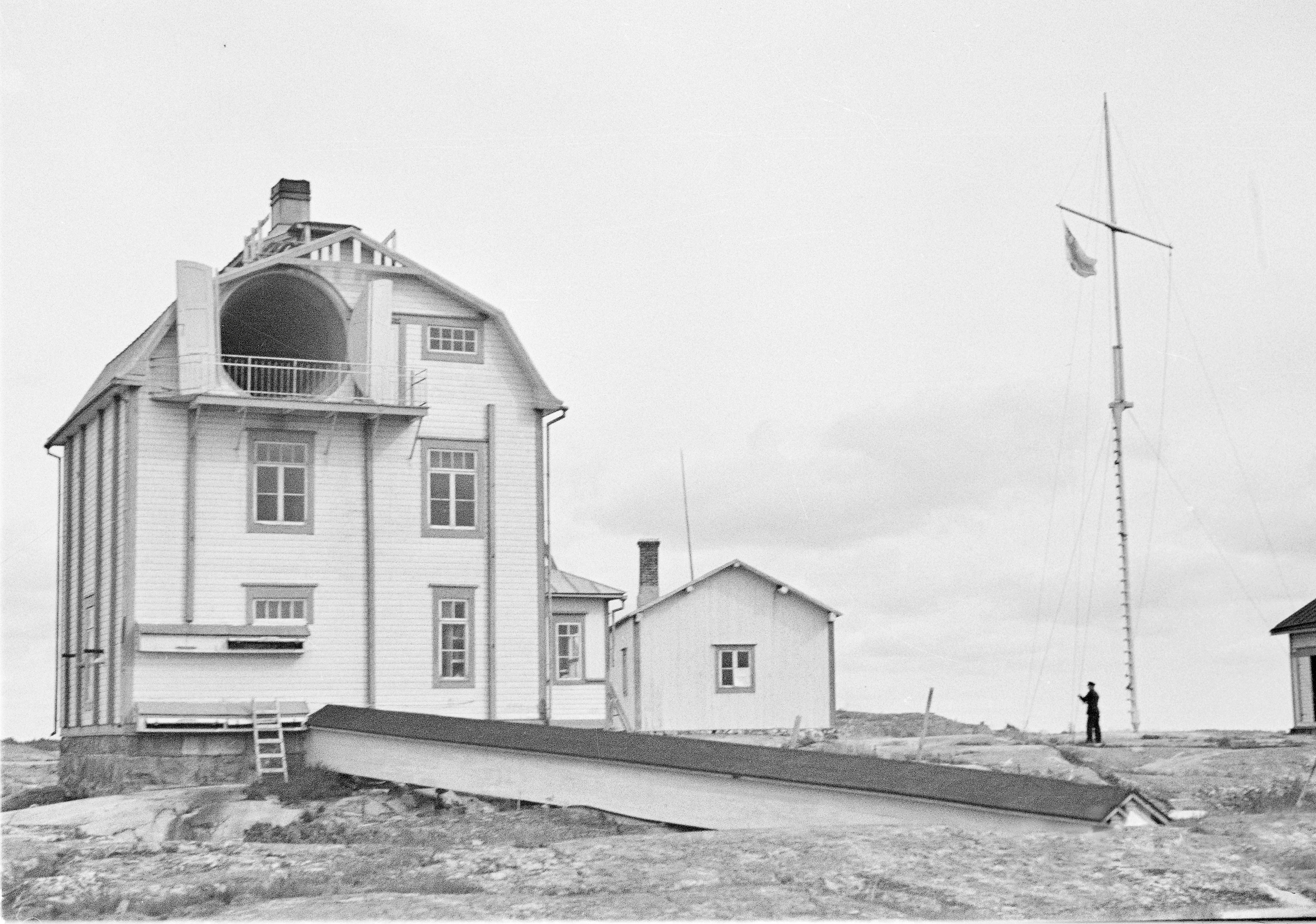 "With a convoy over the Sea of Åland: The maritime pilots' accommodation with foghorn opening" Picture by Fenrik L. Zilliacus